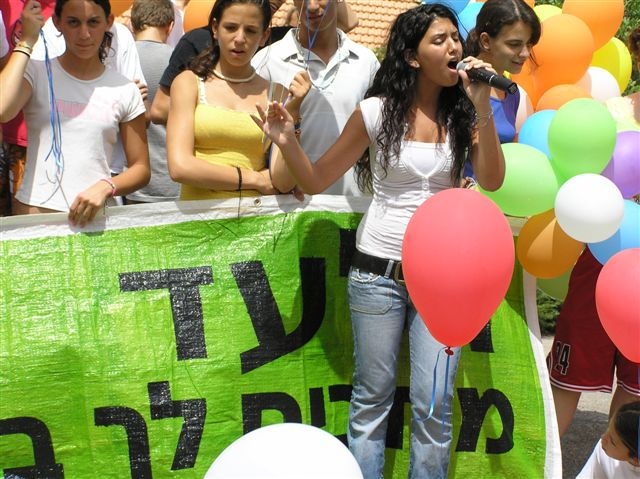 Birthday Gilad Shalit at Mitzpeh, Events in Israel, Notes: (2222)